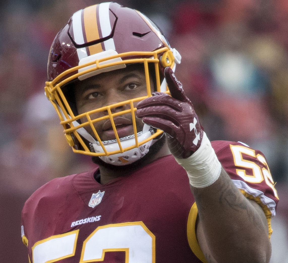 Washington Redskins linebacker, Ryan Anderson, in a game against the Arizona Cardinals on December 17, 2017.